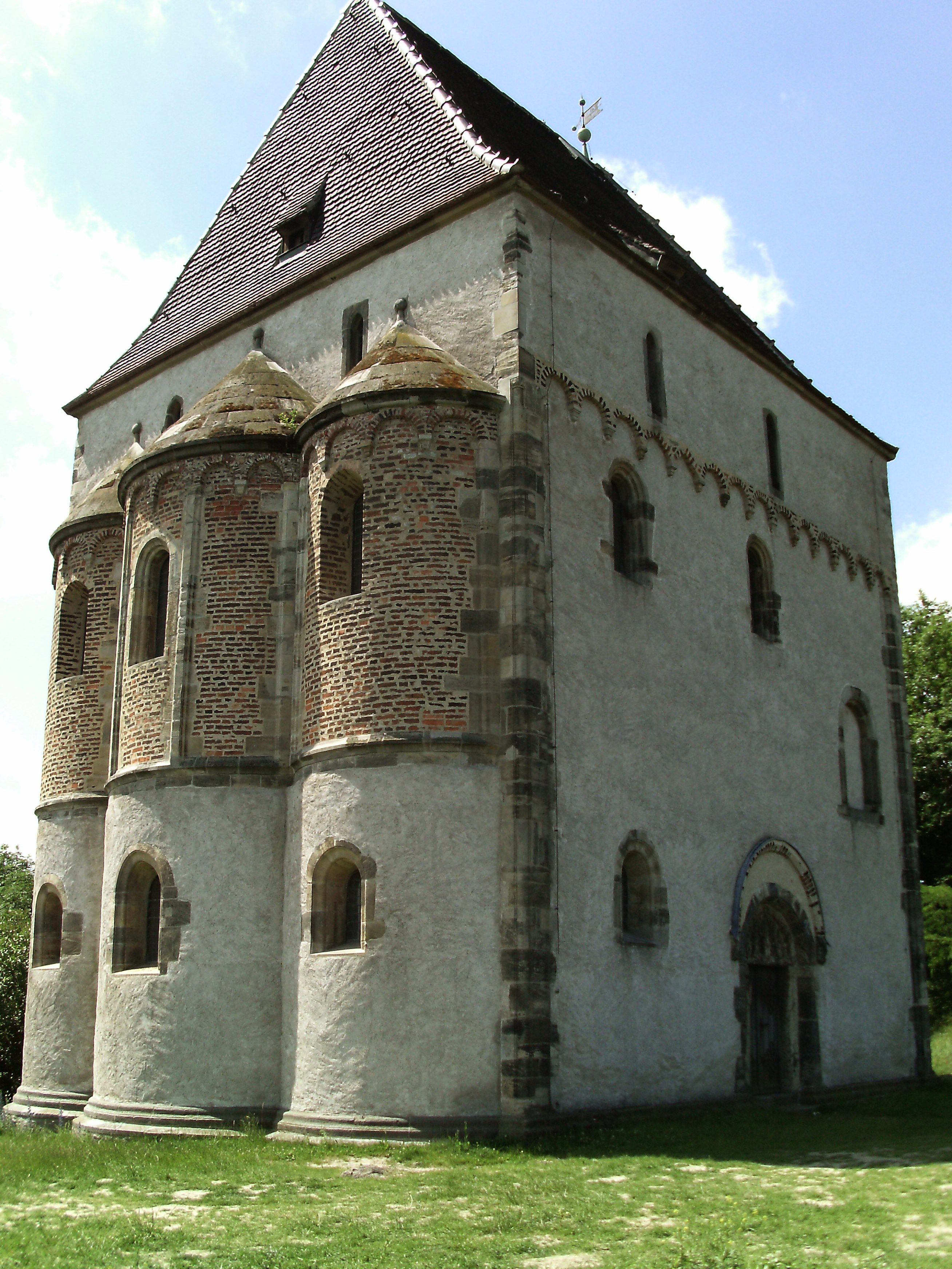 Double chapel in Landsberg (Saalekreis, Saxony-Anhalt)